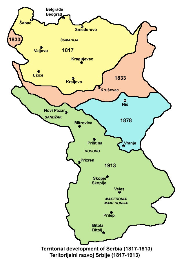 Territorial development of the Principality of Serbia and Kingdom of Serbia (1817-1913).